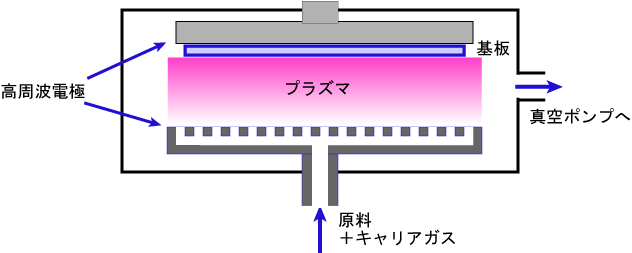 Schematic diagram of a plasma CVD (Chemical Vapor Deposition) system.